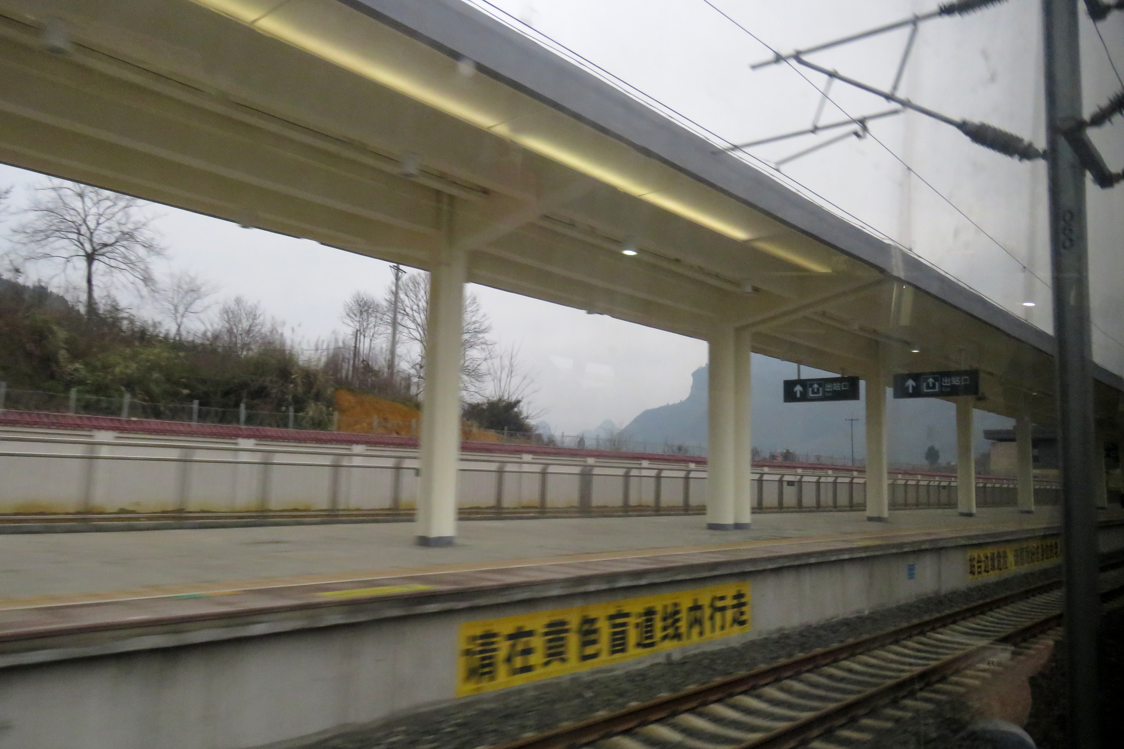 Didn't see that "Kowloon Tong", because most of the tracks are in tunnels.